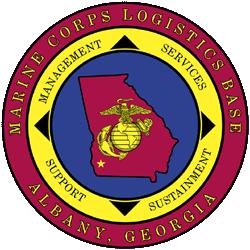 Marine Corps Logistics Base Albany logo